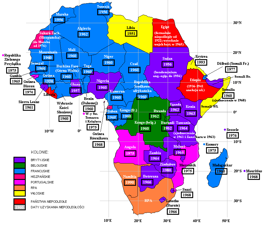 Decolonization of Africa (in Polish).